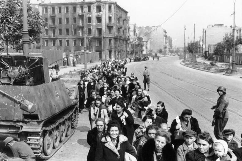 Information added by Wikimedia users.Warsaw Uprising